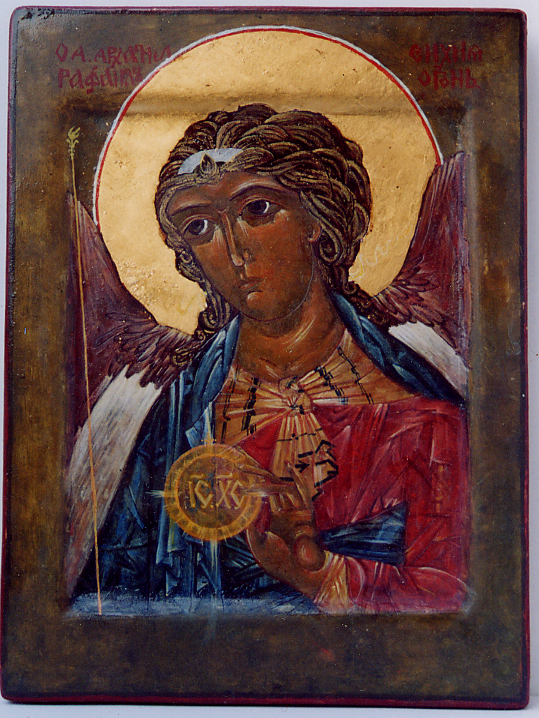 "St.Archangel Raphael",egg tempera, goldleaf on wood, sm 32x24 Fiesole, Italy, 2001